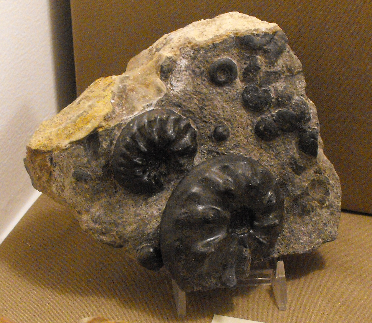 Frechites nevadanus from Lovelock, Nevada, on display at the San Diego County Fair, California, USA.